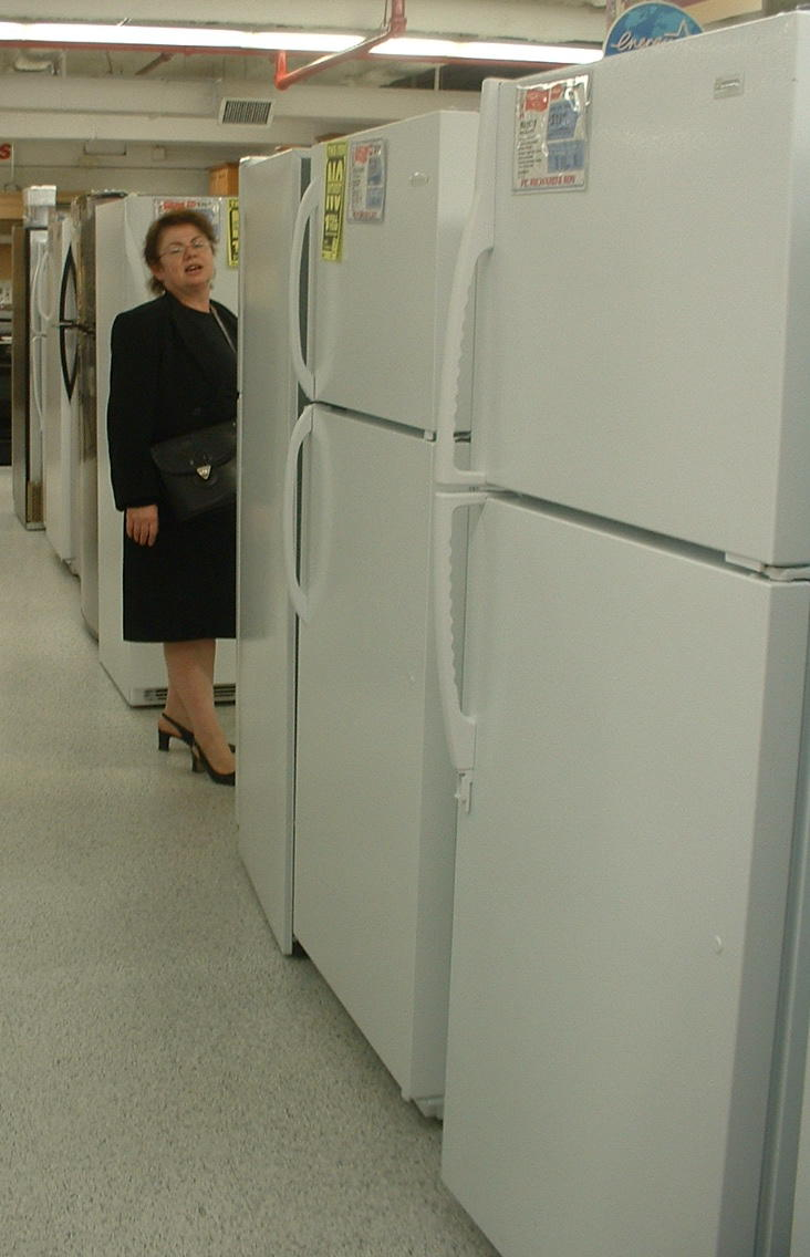 Maze of fridges